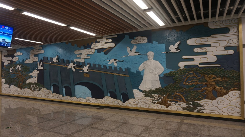 Yuxiangmen Station art